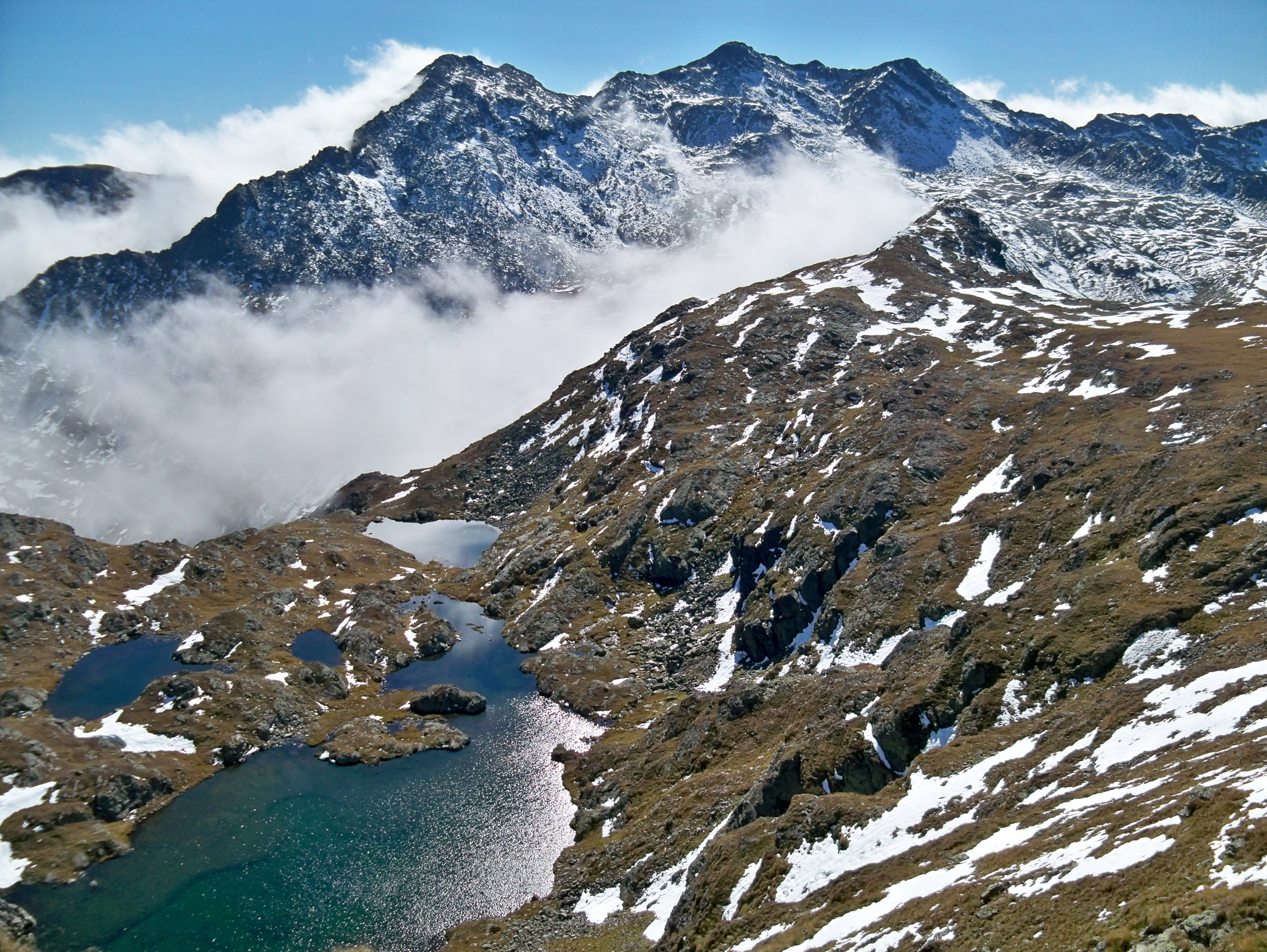 A view over parts of the Vierzehn Seen ("Fourteen Lakes"), a group of small lakes in the Kreuzeck group (part of the Hohe Tauern), situated at 2367 m. The mountain top opposite is the Hochkreuz, 2709 m.